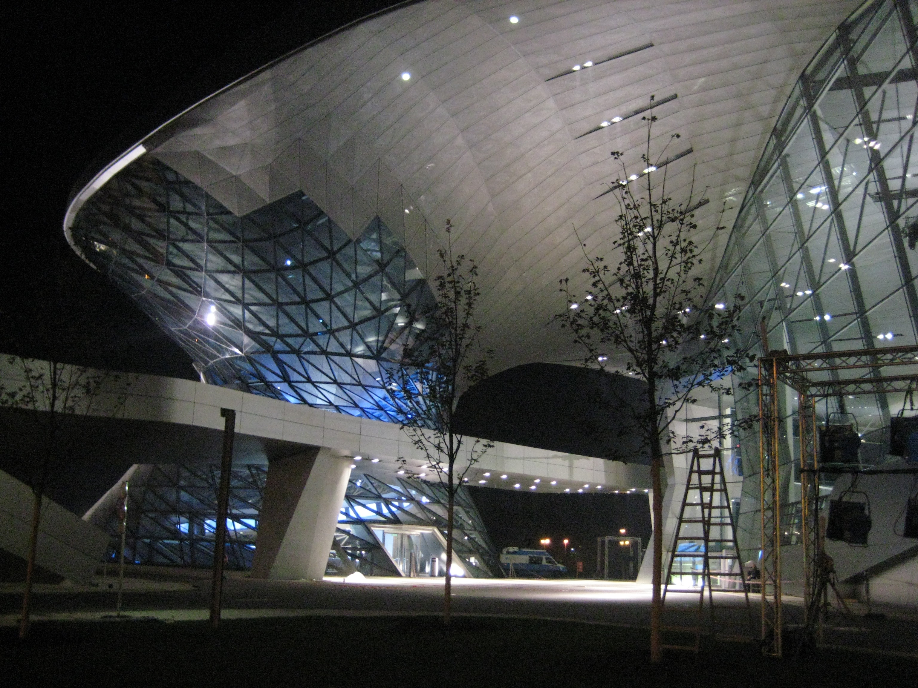 Photo of BMW Welt (BMW World) taken night before it opened, Oct 16, 2007.